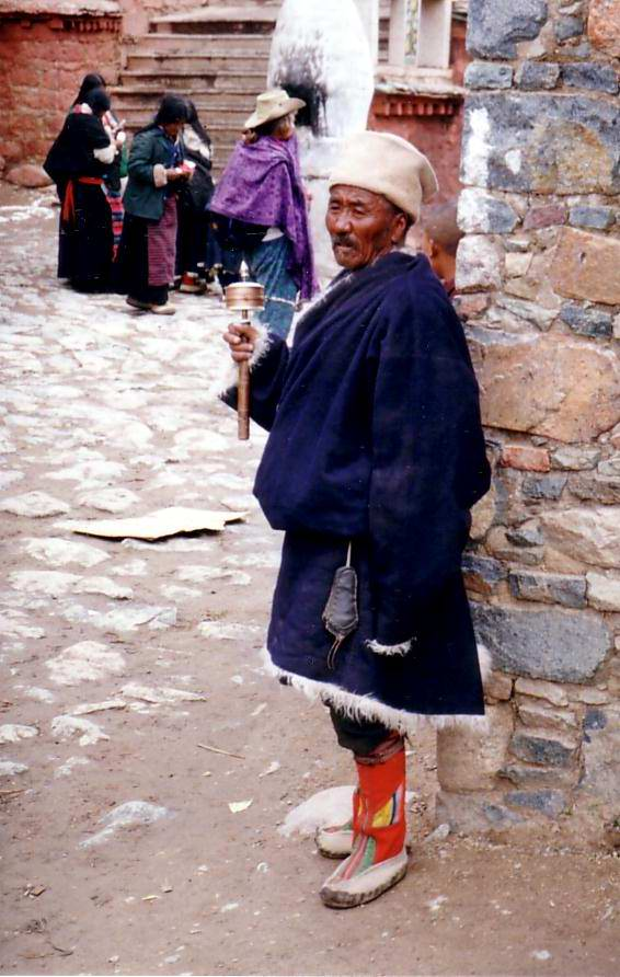 I took this photo myself in 1993. John Hill 04:55, 28 January 2007 (UTC)